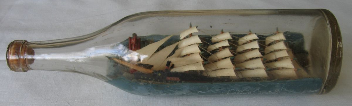 Ship in a bottle; hand-made in Germany before WWII